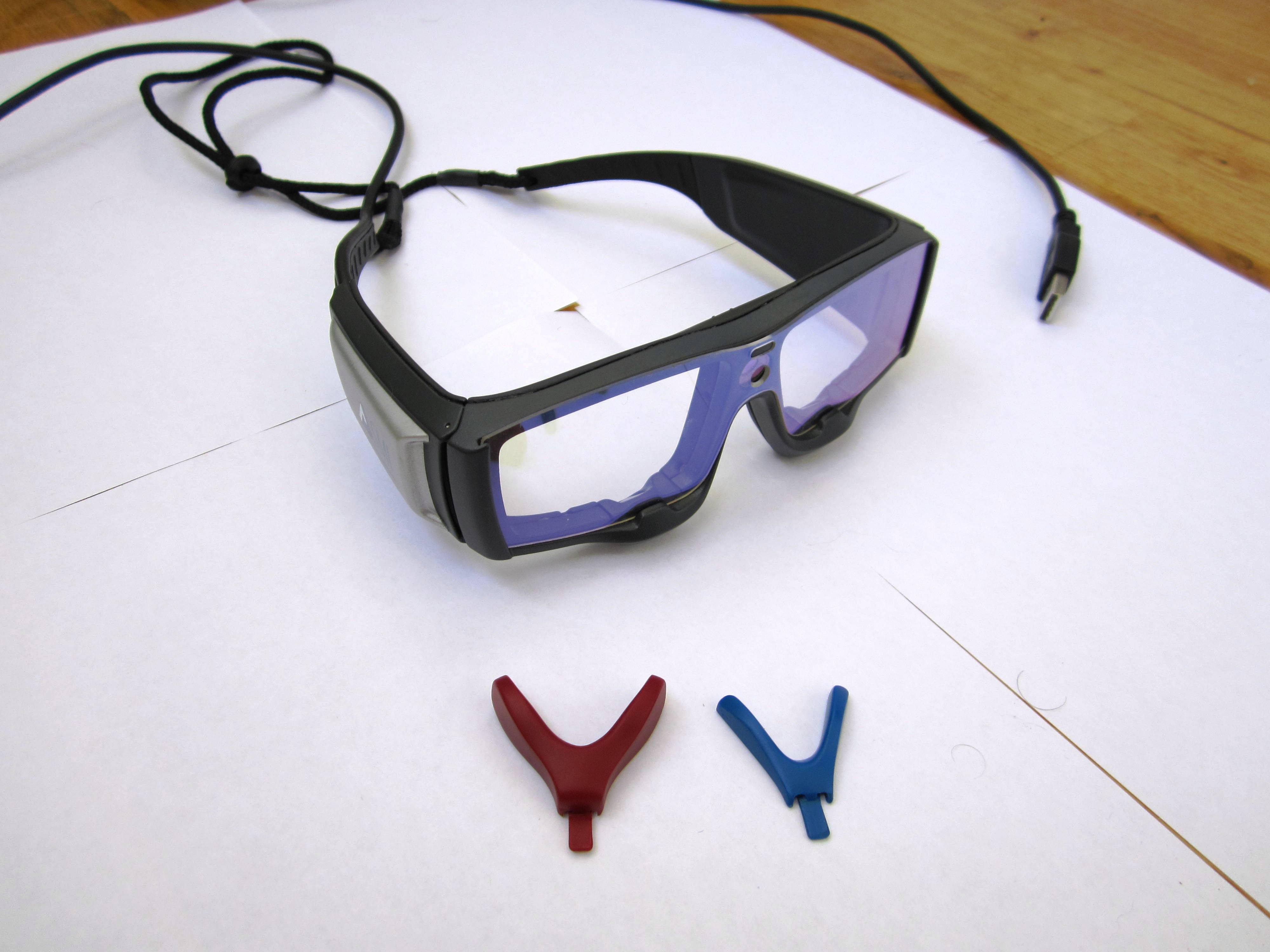 The spectacles for Eye Tracking with two nozzles for different types of nose bridges